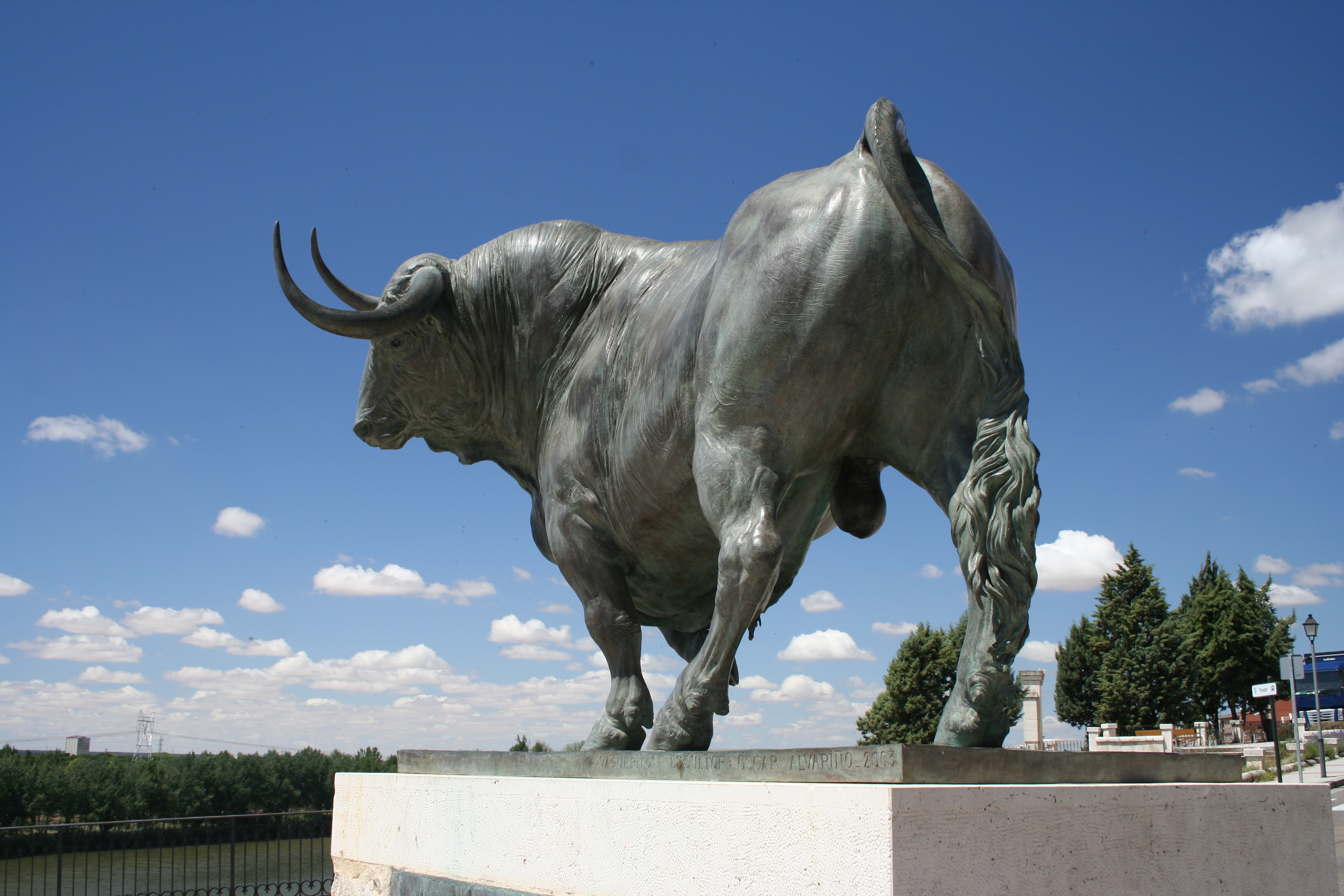 A monument to the Spanish fighting bull or Toro de lidia in Tordesillas, Valladolid, Spain.